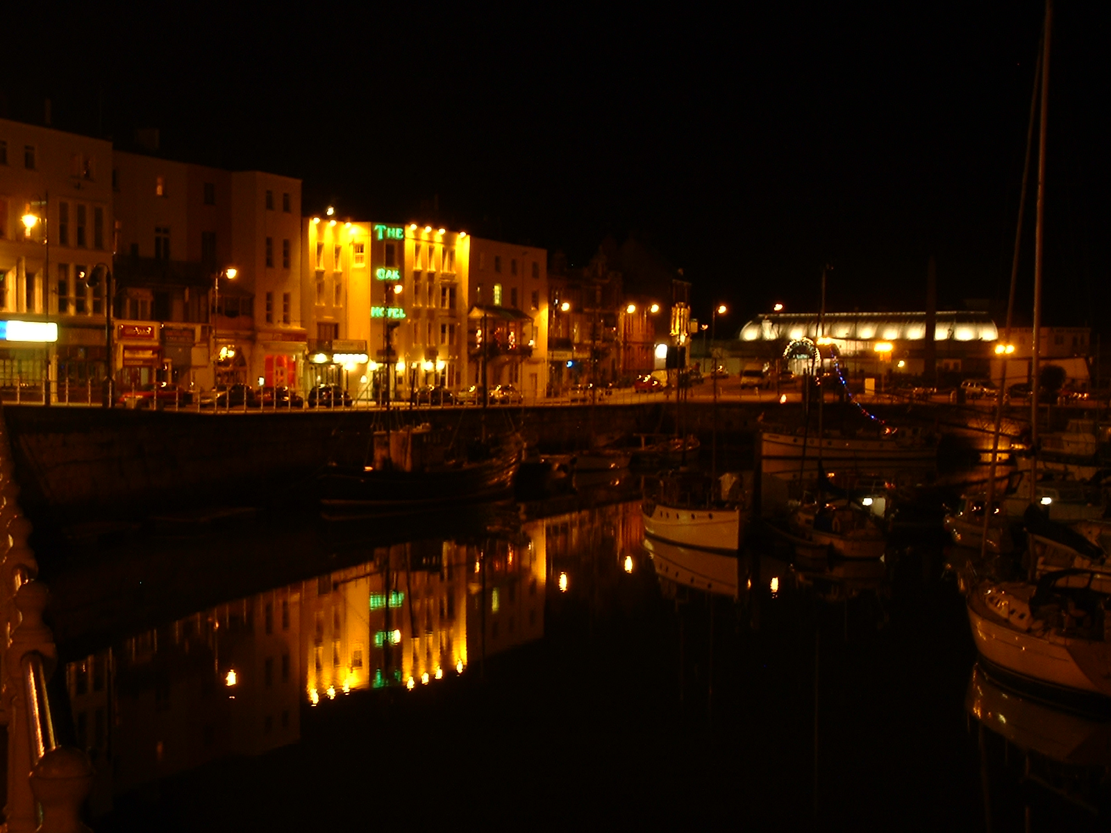 Photo by myself, Adem Djemil, on 25/12/04